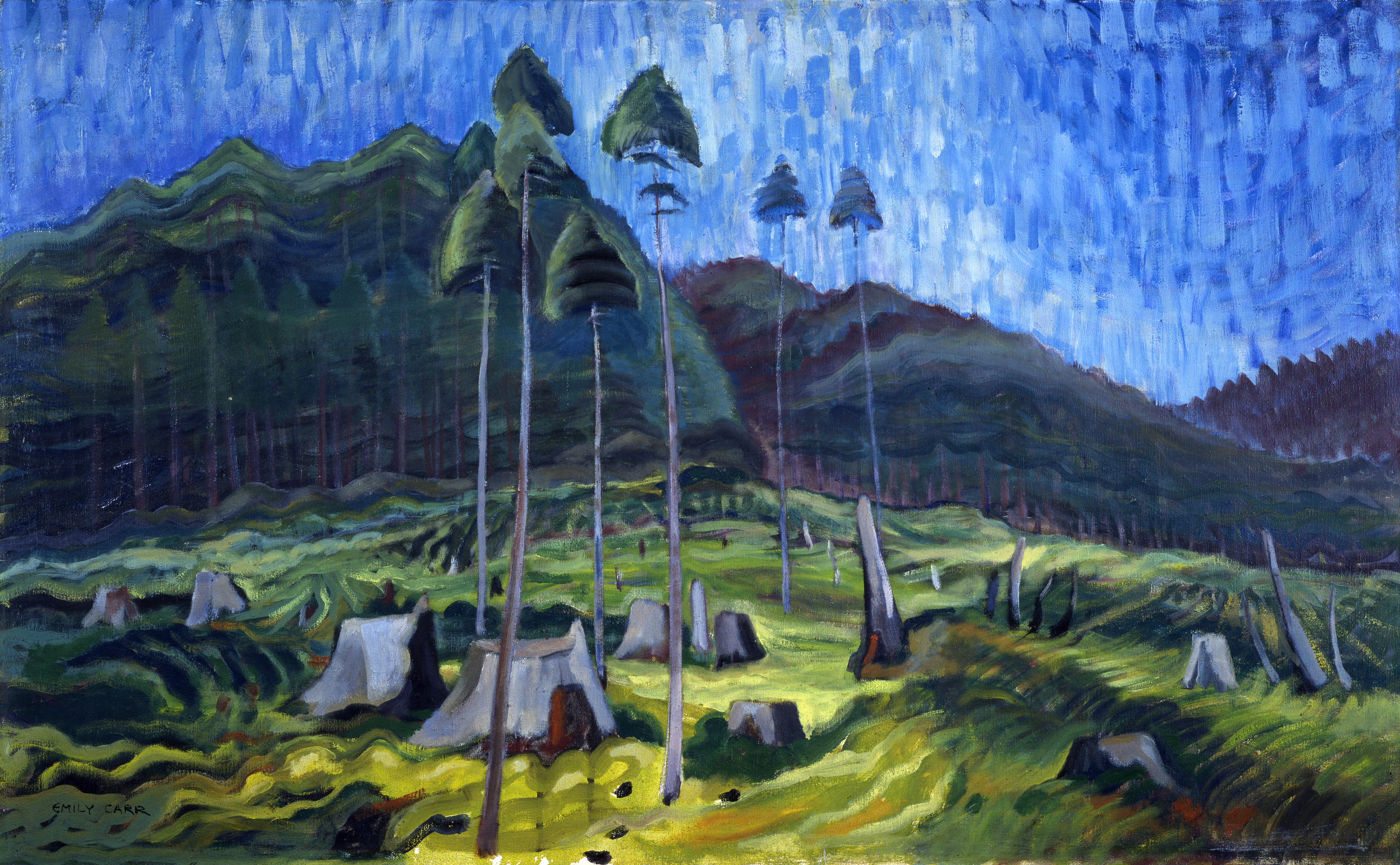 Oil on canvas painting by Canadian artist Emily Carr, formerly in the collection of the Greater Victoria Public Library, now in the Art Gallery of Greater Victoria. Painting measures 67.4 x 109.5 cm